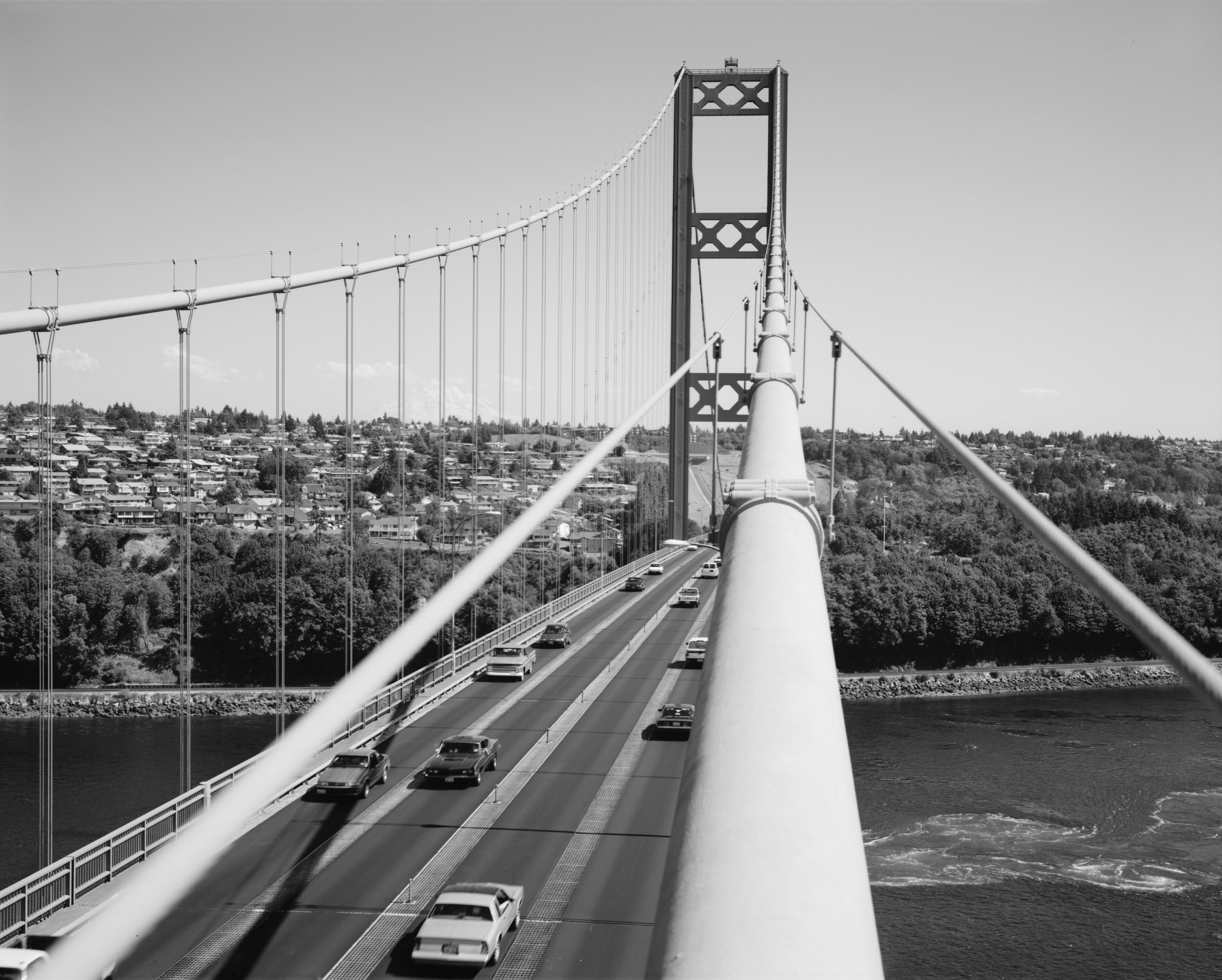 Tacoma Narrows Bridge, Spanning Narrows at State Route 16, Tacoma, Pierce County, WA Note that 1950 refers to the date the bridge opened, and not the date the picture was taken.